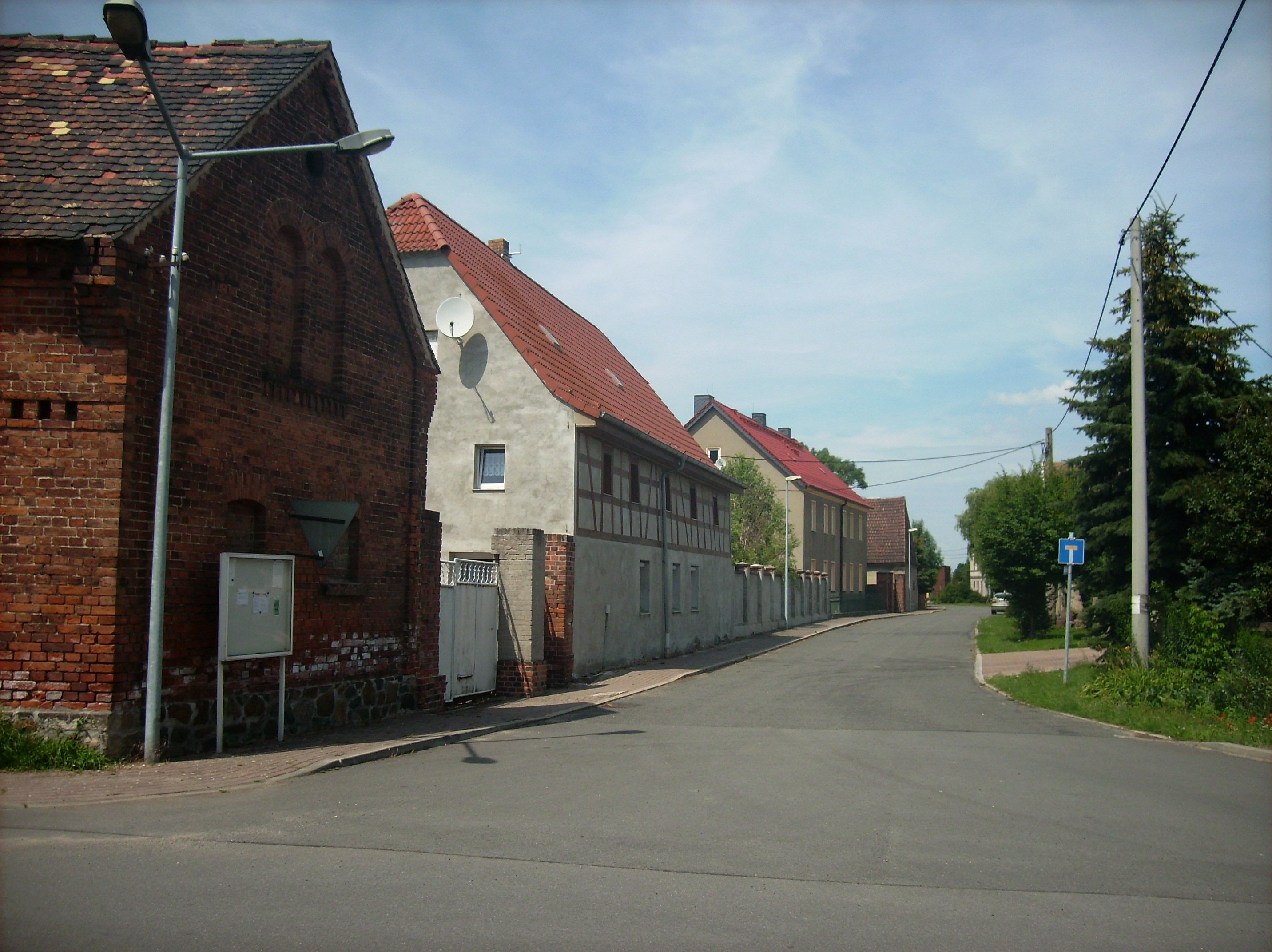 The village of Steubeln (Zschepplin, Nordsachsen district, Saxony)